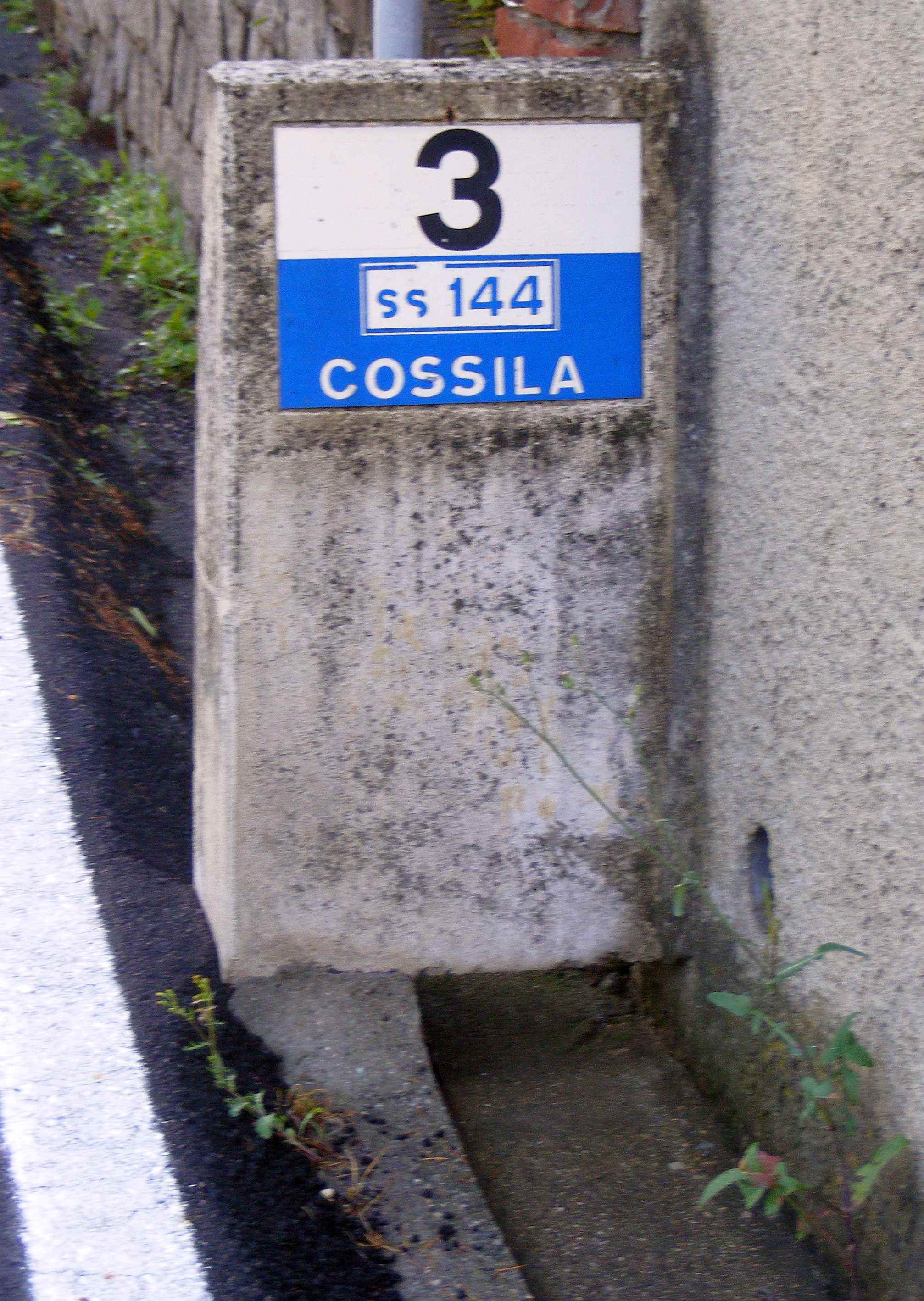 Cossila San Grato (BI, Italy): former SS 144 Biella-Oropa milestone